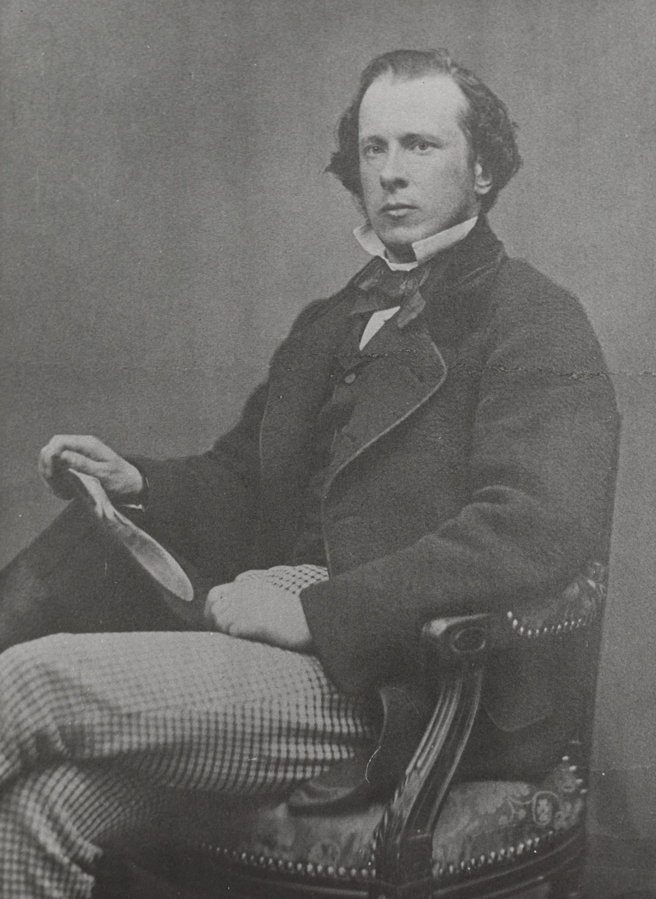 Mayor of Haarlemmermeer